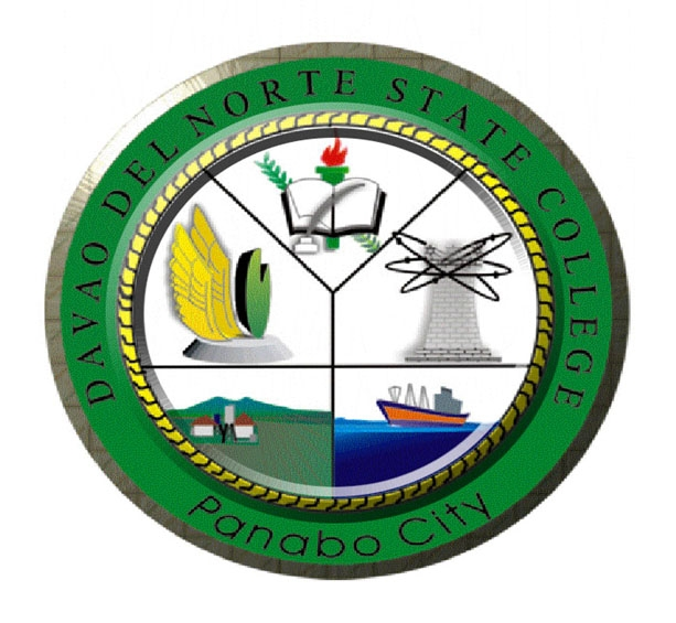 DNSC College Seal